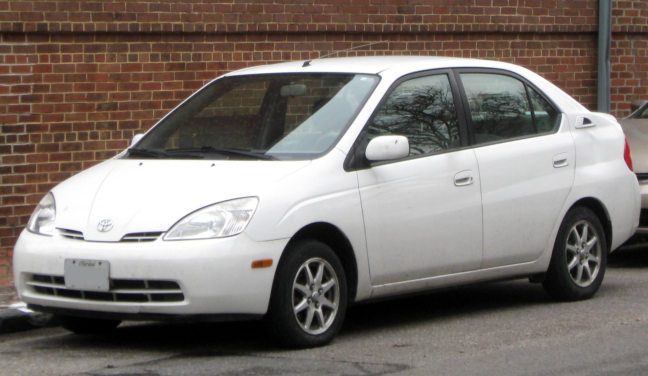 2000-2003 Toyota Prius photographed in Annapolis, Maryland, USA.